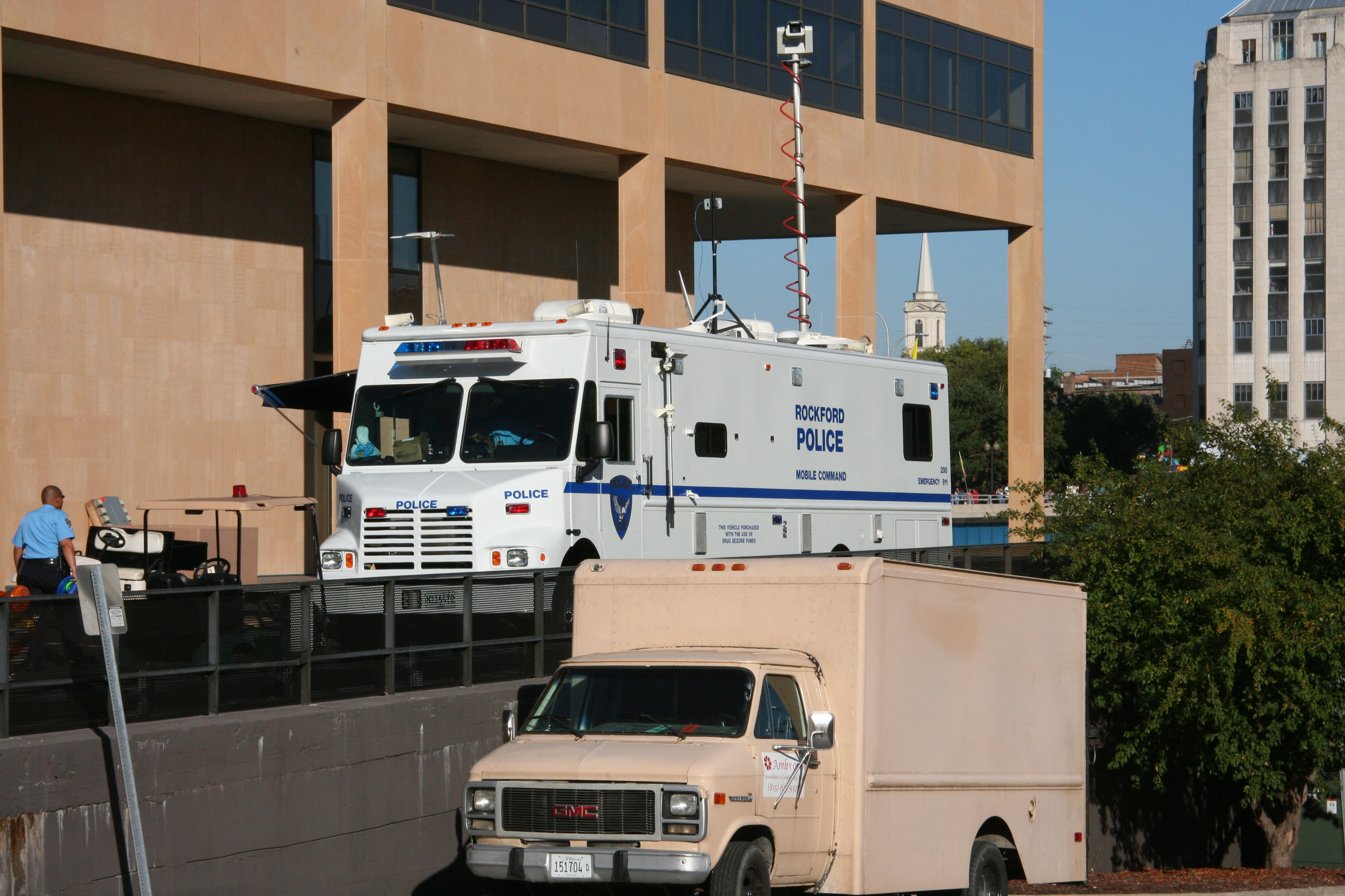 The mobile police command vehicle in Rockford, Illinois, USA police department.